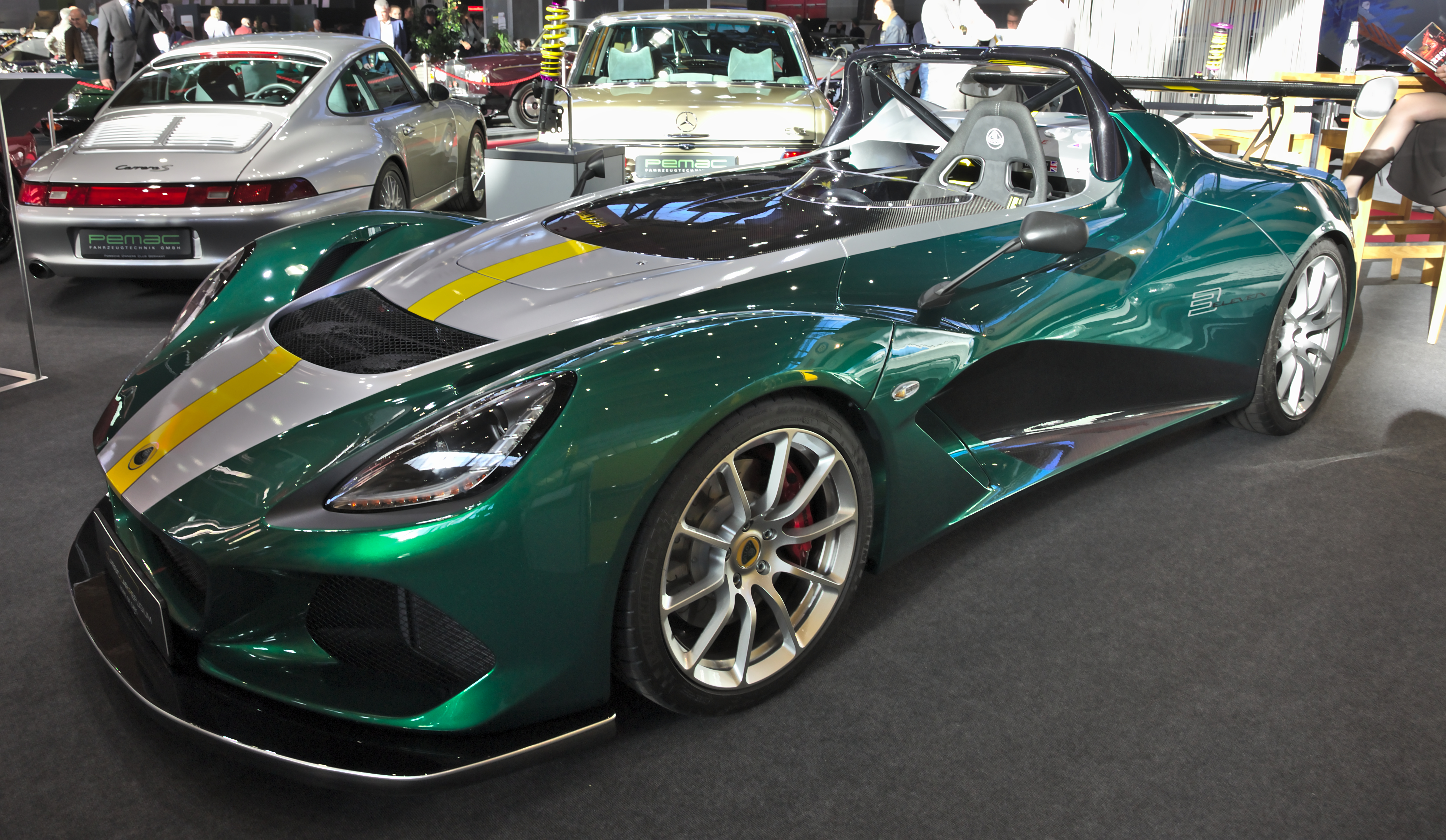 Lotus 3-Eleven at Retro Classics 2019